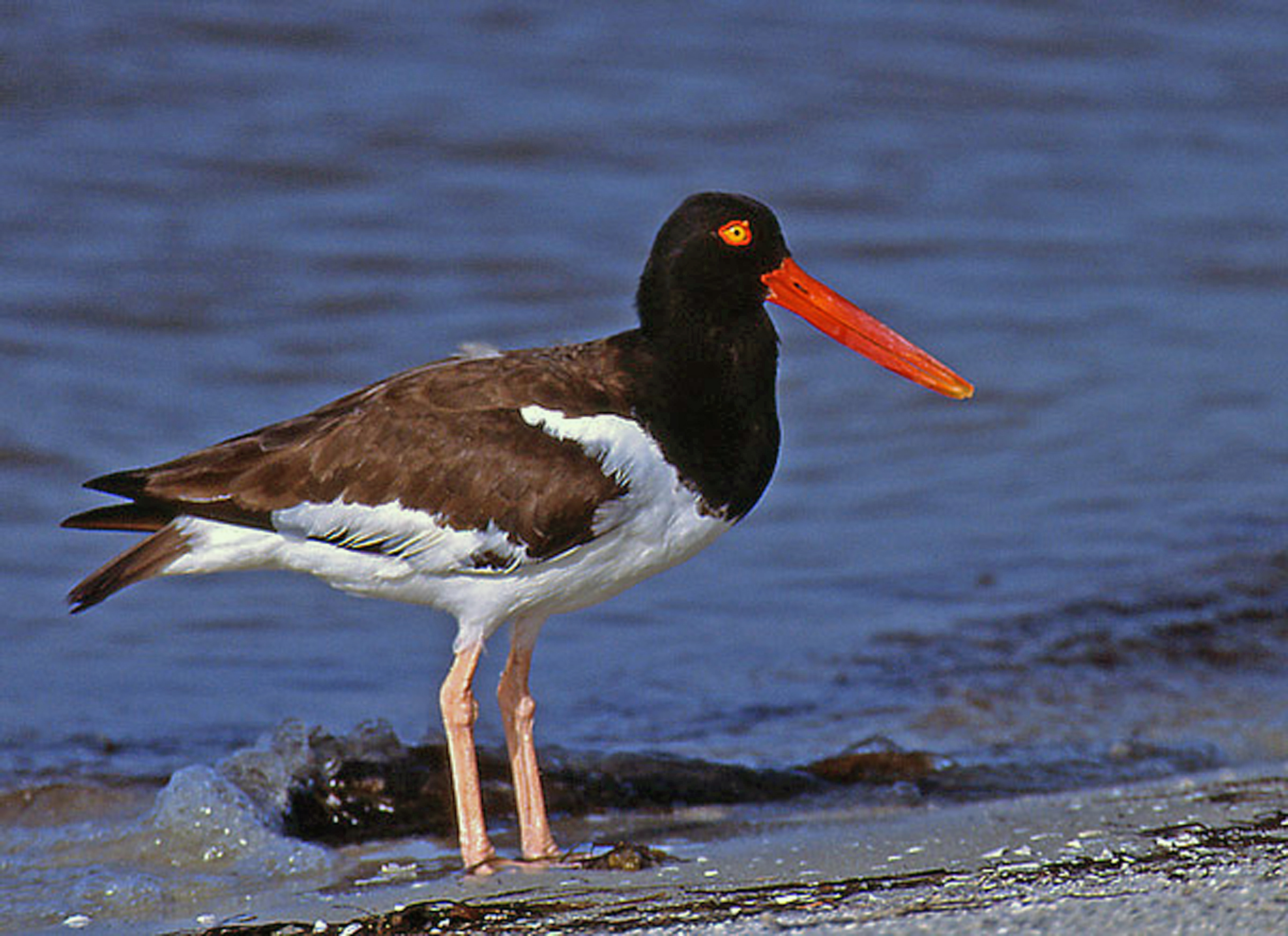 The American Oystercatcher is a rare shore bird